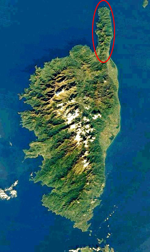 Satellite picture of the Corsican Cape